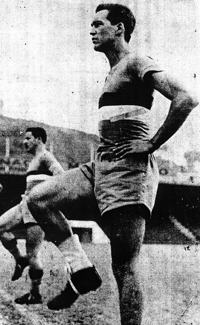 Heleno de Freitas when playing for Boca Juniors